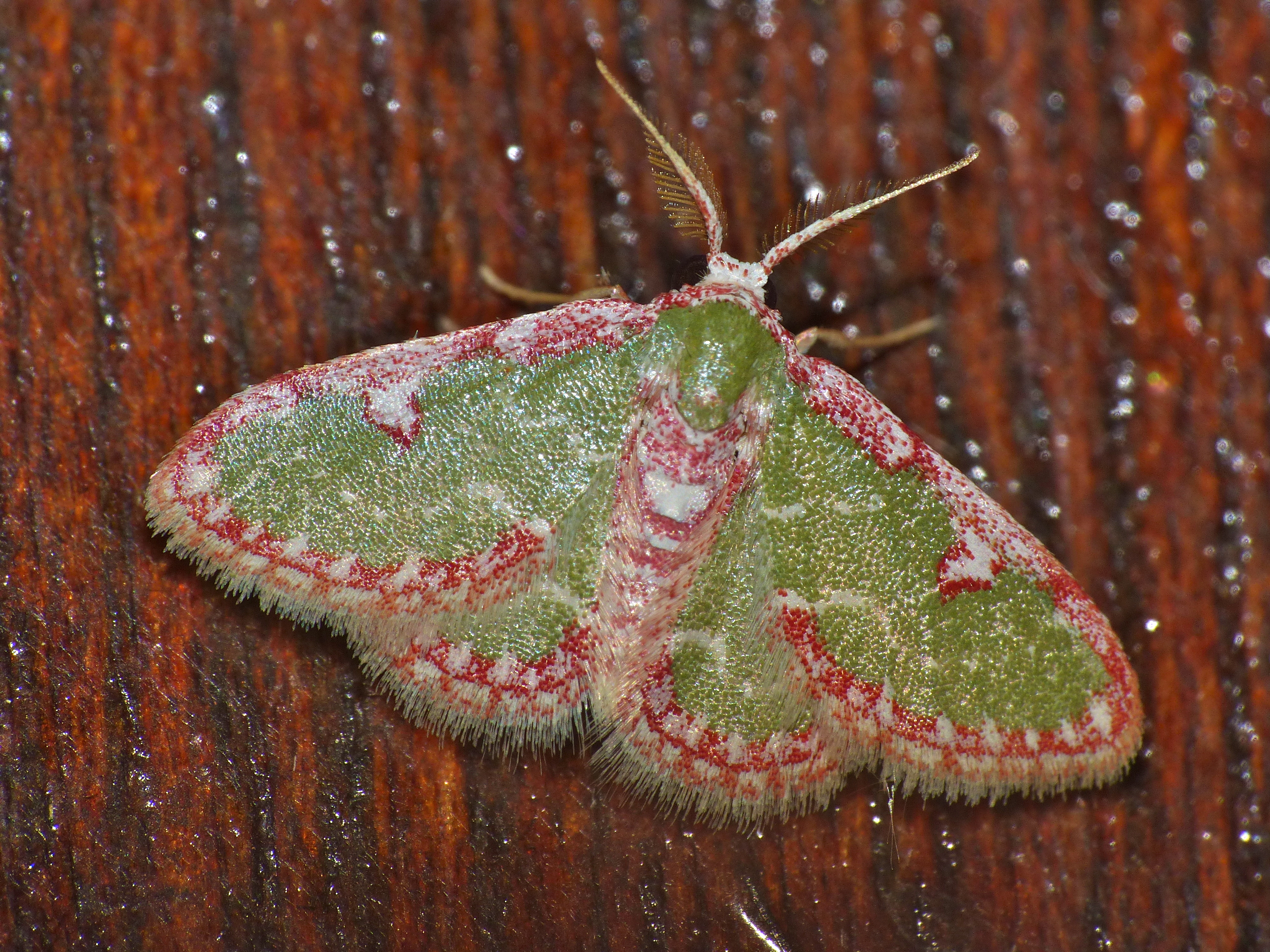 Tent N°27, Tamboti Tented Camp, Kruger NP, SOUTH AFRICA